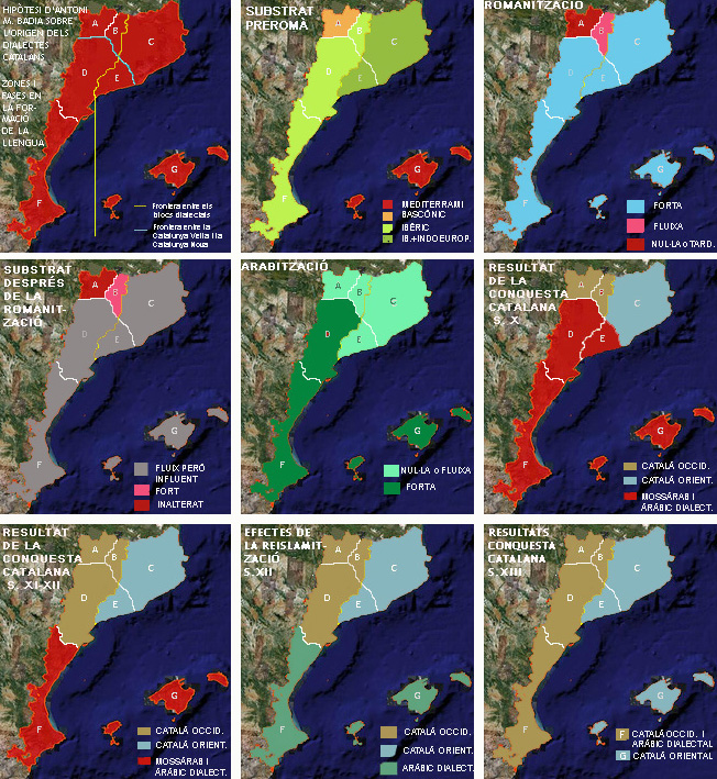 Maps on the theory of Antoni M. Badia on the formation of the Catalan language and of its main dialects